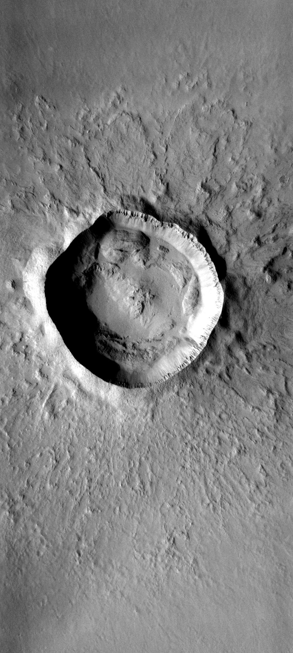 Crop of Themis data product V09818024 of Zunil crater, Mars.